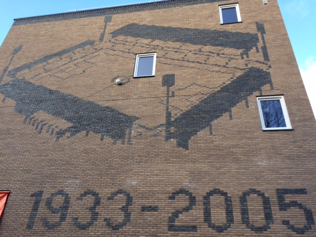 A mosaic of FC Groningen's former Oosterpark stadium on the wall of a house occupying the stadium's former site.